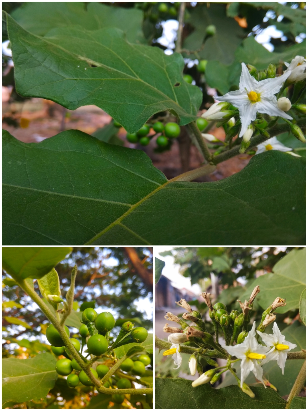 Solanum torvum collage